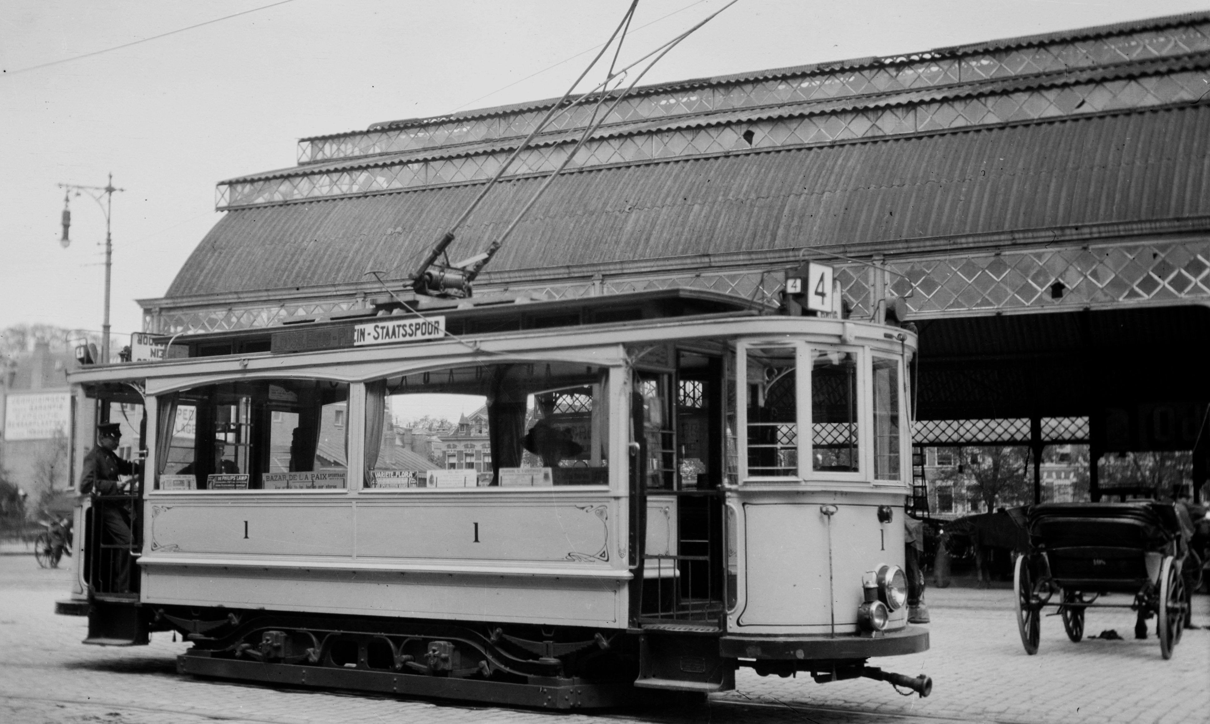 Street car - the Hague, Holland Date not recorded, but some time in the first few decades of the 20th century. This is a picture of a tramcar in The Hague (Den Haag) at Rijnstraat in front of the Staatsspoor. This station building was originally used for trains to Utrecht. At this site the completely new Central Station arose in 1973. De tramcar is numbered 1, so it's the very first electric tramcar that ever got on the tracks in The Hague. It's on the number 4 line, a small and short line which went from this point to the Plein, Binnenhof and via a very narrow street called 'Westeinde' to its terminus 'Loosduinsebrug'. Because the cars were orginally blue, and now cream (on this pic), it must be after WW I.